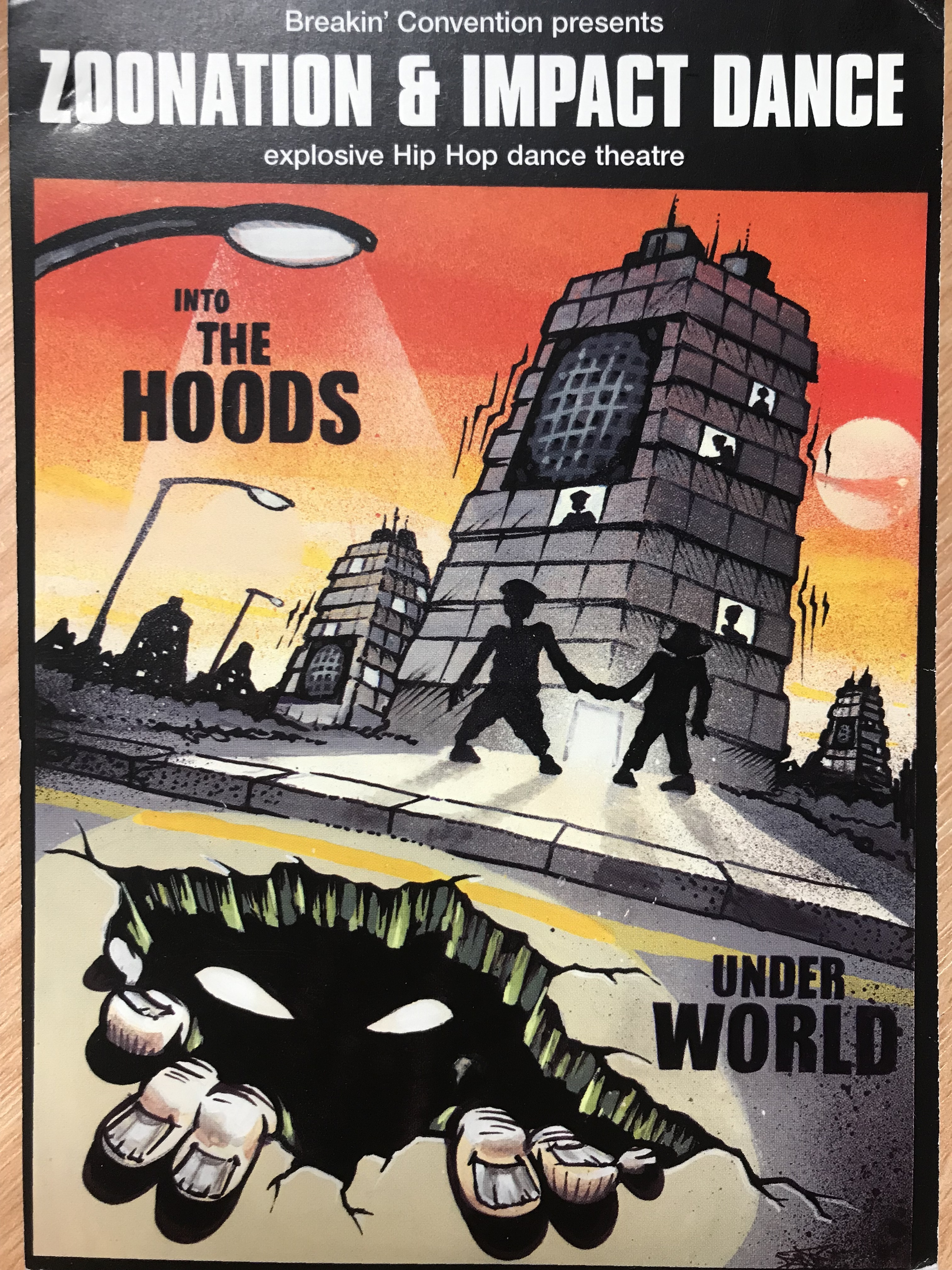 Original artwork from the first run of Into The Hoods at the Peacock Theatre, presented by Breakin' Convention with ZooNation and Impact Dance's Underworld